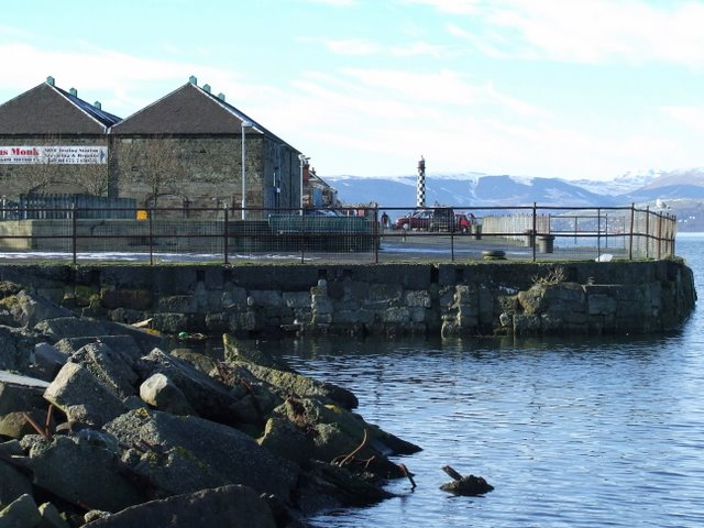 West Quay and Mirren's Shore At Coronation park.